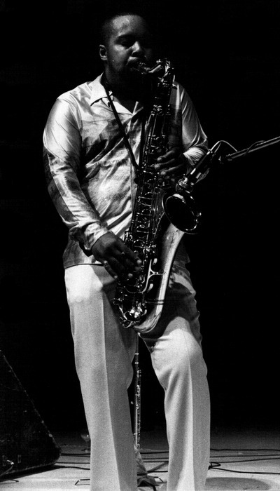 Saxophonist Byron Bowie in Paris, France